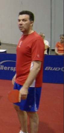 Ilija Lupulesku (born October 30, 1967 in Uzdin) is a former Serbian-Yugoslav and later American[1] table tennis player who competed in the 1988, 1992, 1996, 2000 and in the 2004 Summer Olympics